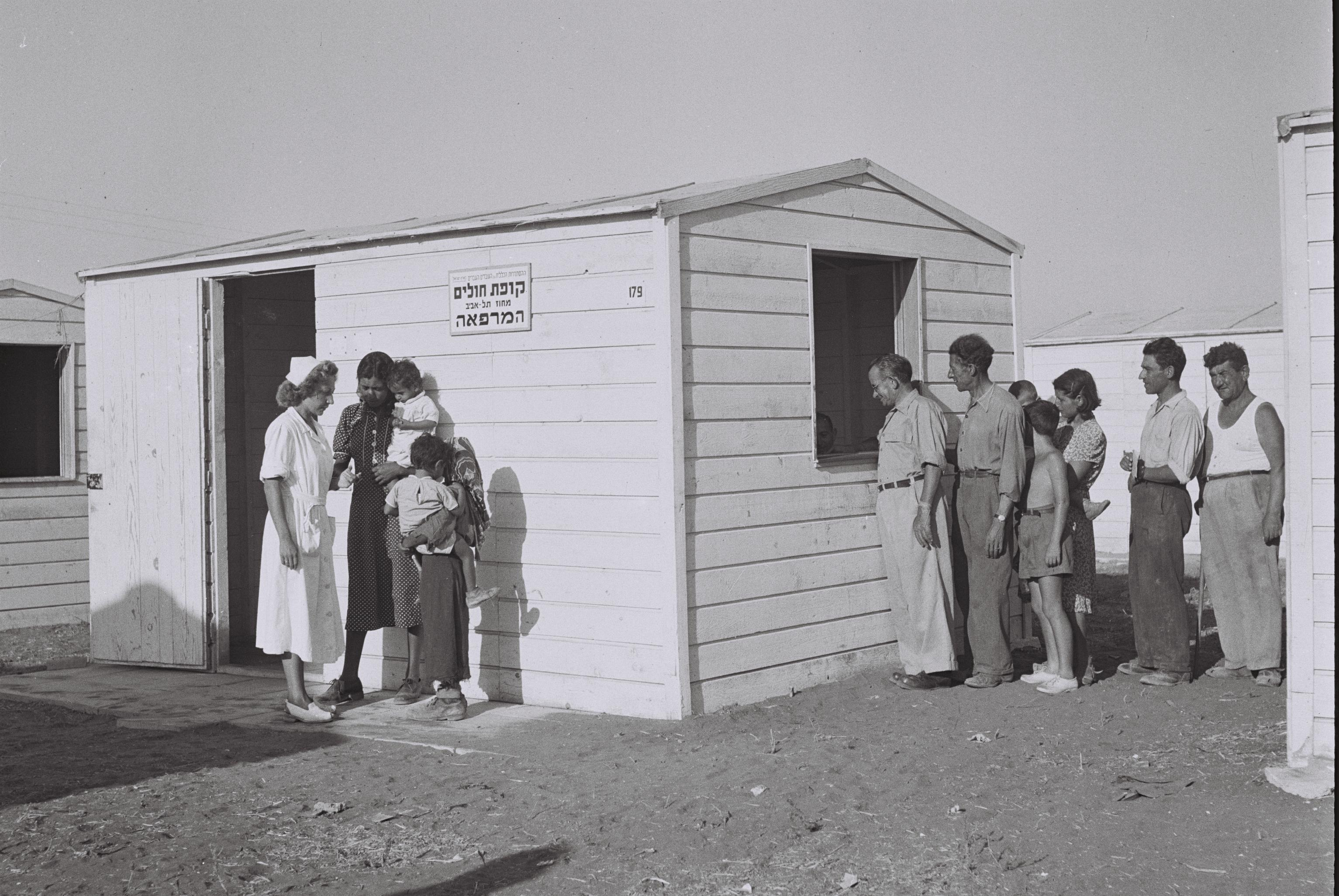 RESIDENTS OF A MA'ABARA NEAR TEL AVIV LINING UP OUTSIDE THE "KUPAT HOLIM" CLINIC.